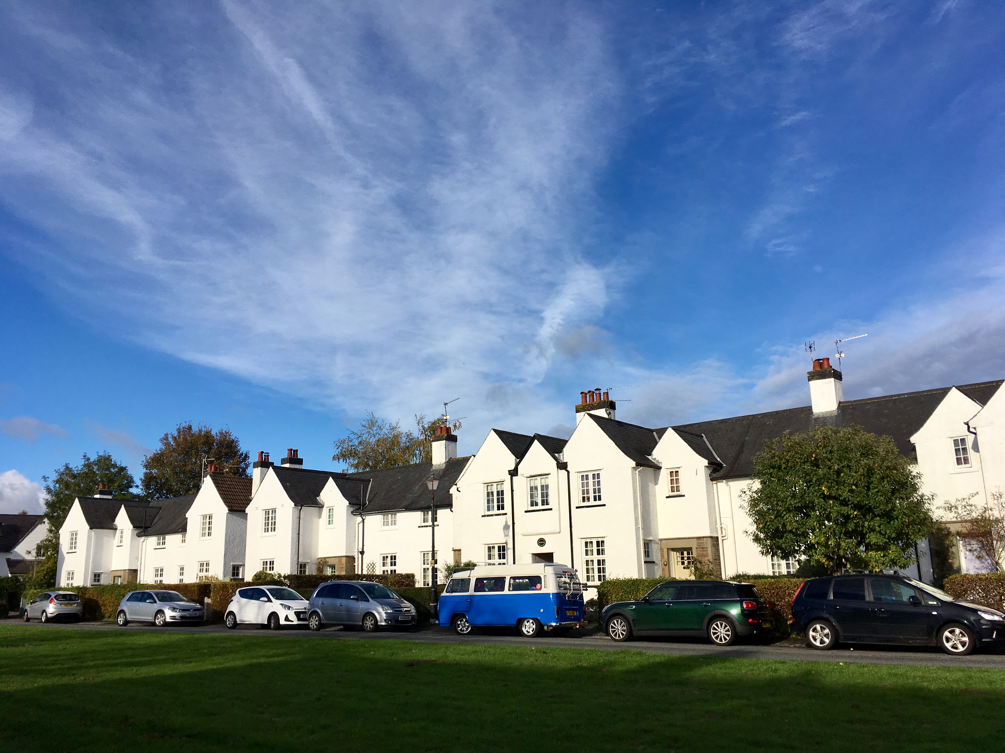 Nos. 11-14 Y Groes (consecutive) Wikidata has entry Q29502804 with data related to this item.